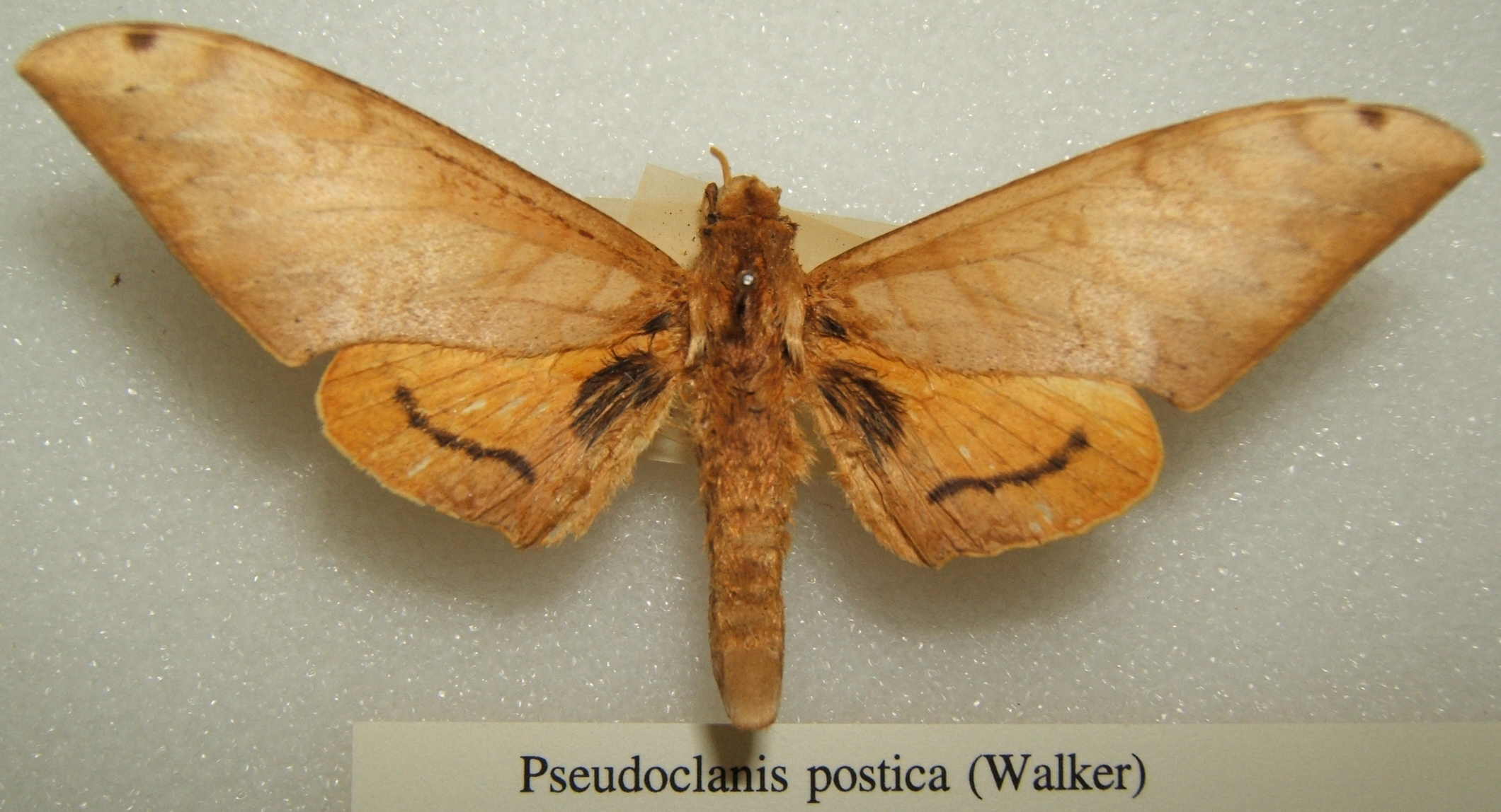 Pseudoclanis postica adult taken by Shawn Hanrahan at the Texas A&M University Insect Collection in College Station, Texas.